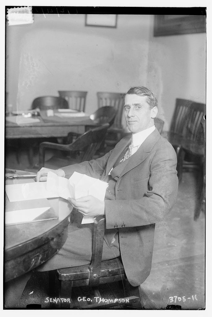 George F. Thompson (July 24, 1870 in Saratoga Springs, Saratoga County, New York – June 1948) was an American lawyer and politician from New York